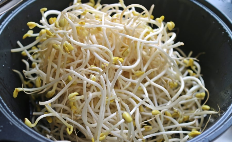 kongnamul (soybean sprout)